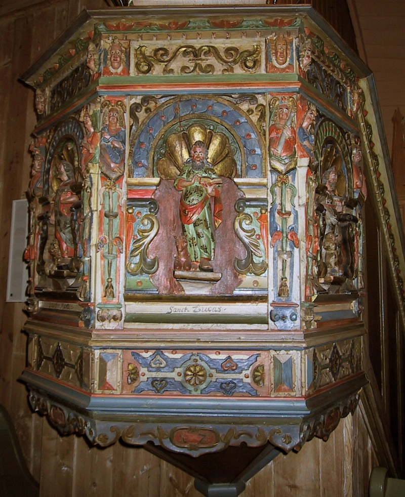 Pulpit, detail, in Brandval church by woodcarver Lauritz Lauritzen from 1651, painted by Thomas Blix in 1728.